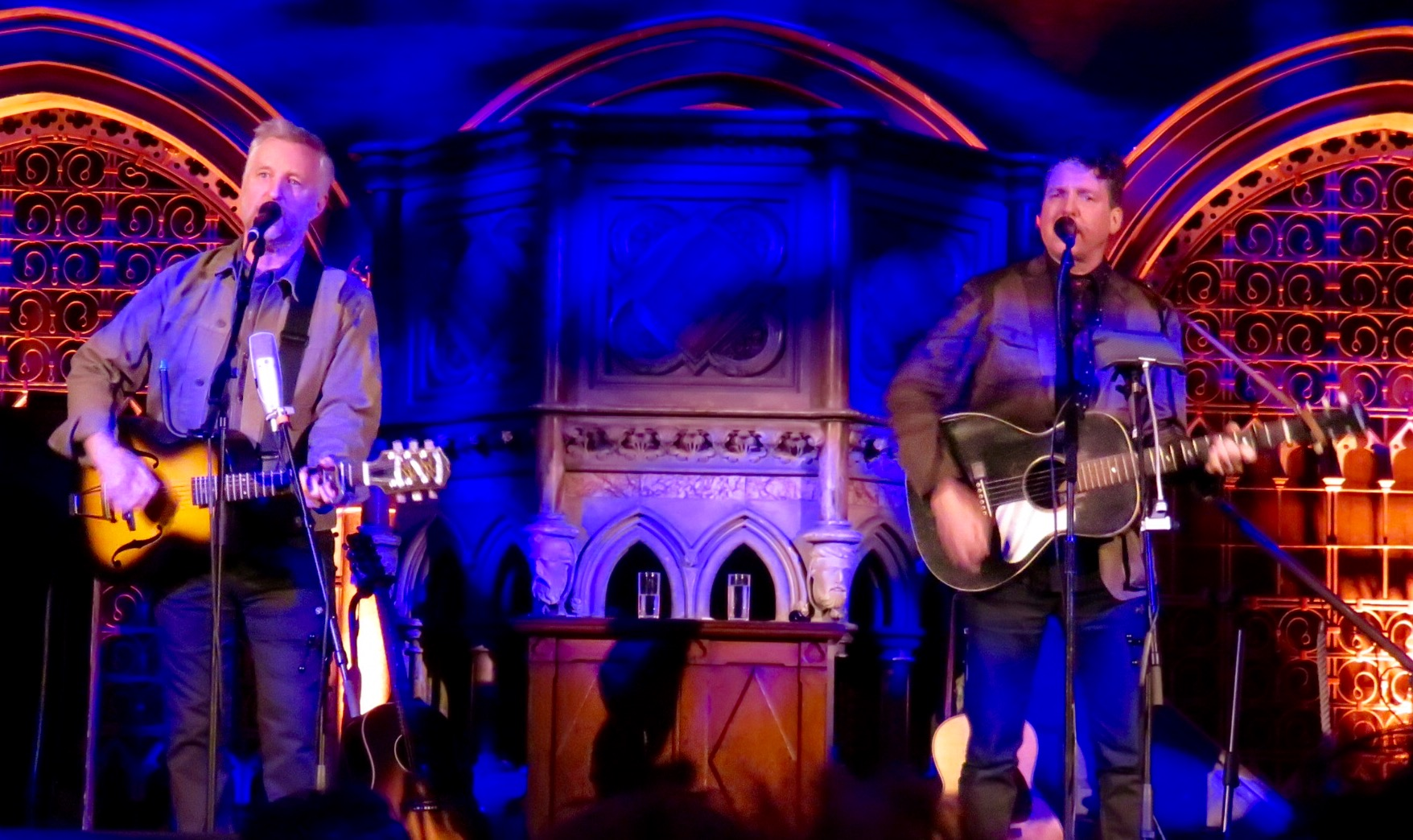 Billy Bragg and Joe Henry performing at the Union Chapel, Islington, London.